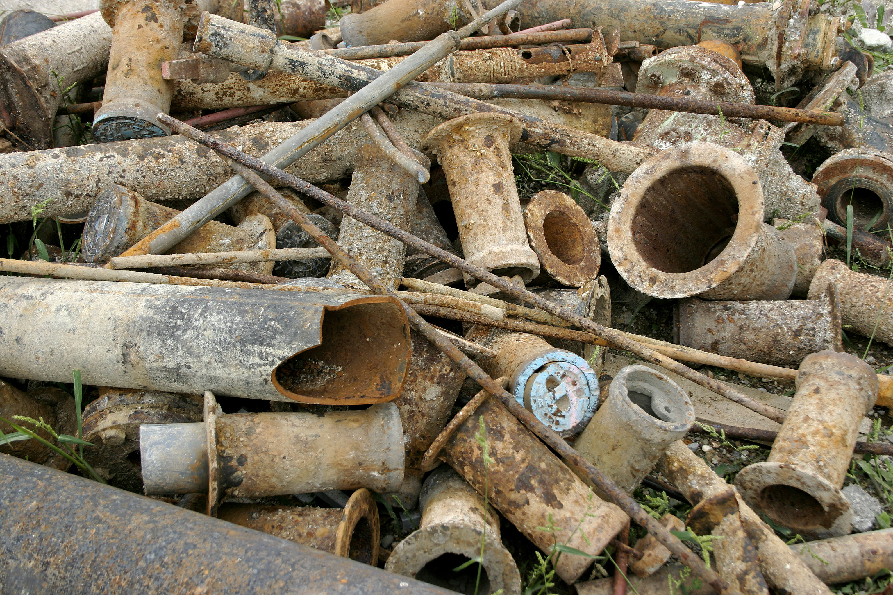 Cast iron, Scrap Metal